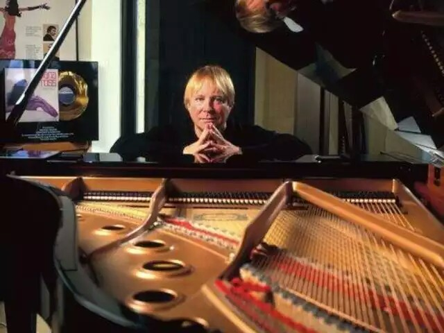 Composer Michael Masser at his piano